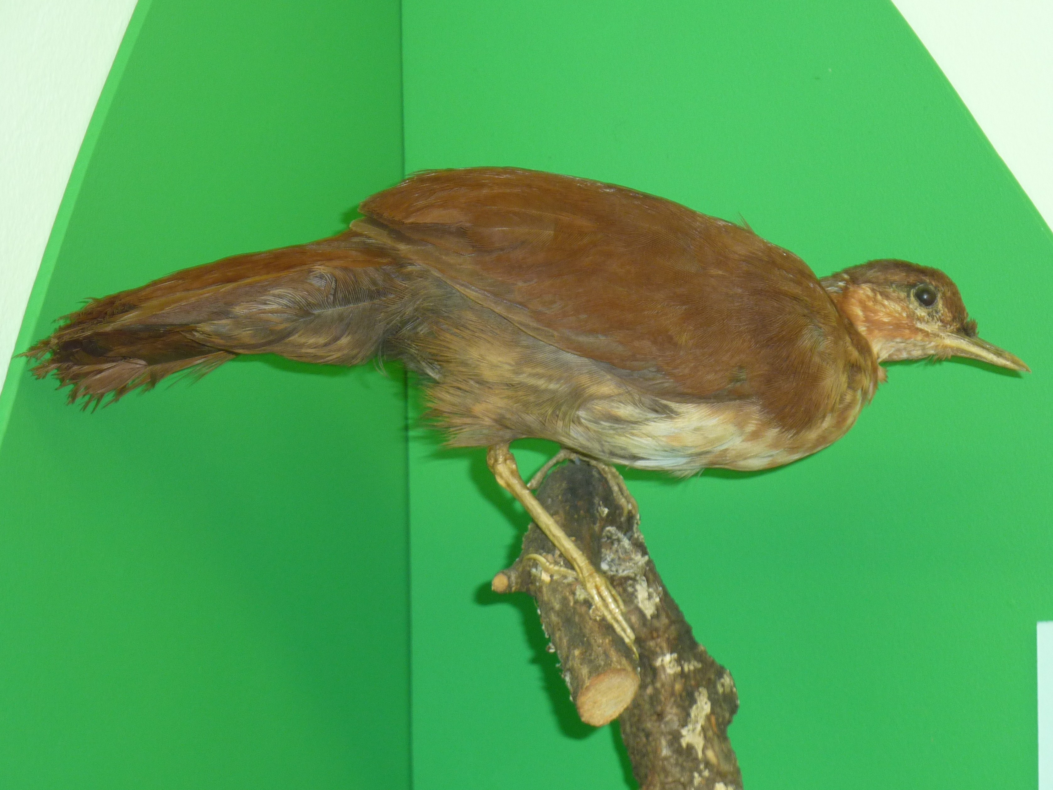 White-breasted Mesite (Mesitornis variegatus)